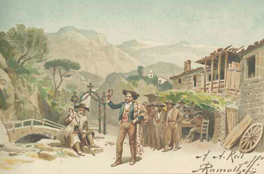 Watercolour of "Serrana", Act I, Scene 2 - "Eve, there in Heaven"